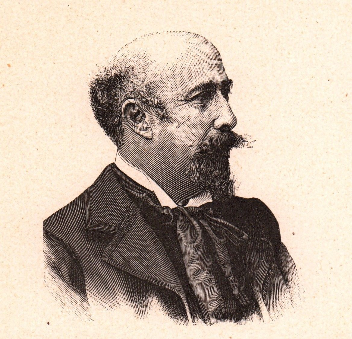 French painter and engraver Luigi Loir (1845-1916)